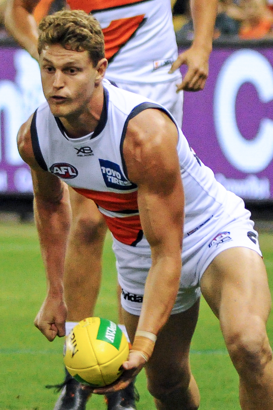 Jacob Hopper during the AFL round five match between St Kilda and Greater Western Sydney on 21 April 2018 at Etihad Stadium in Melbourne, Victoria.